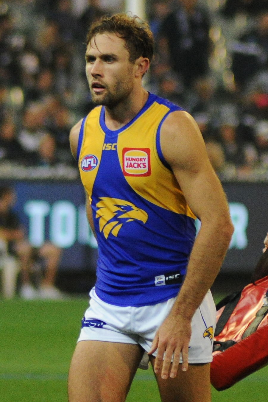 Mark Hutchings during the AFL round five match between Carlton and West Coast on 21 April 2018 at the Melbourne Cricket Ground in Melbourne, Victoria.